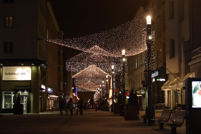 Rotuaari, Oulu